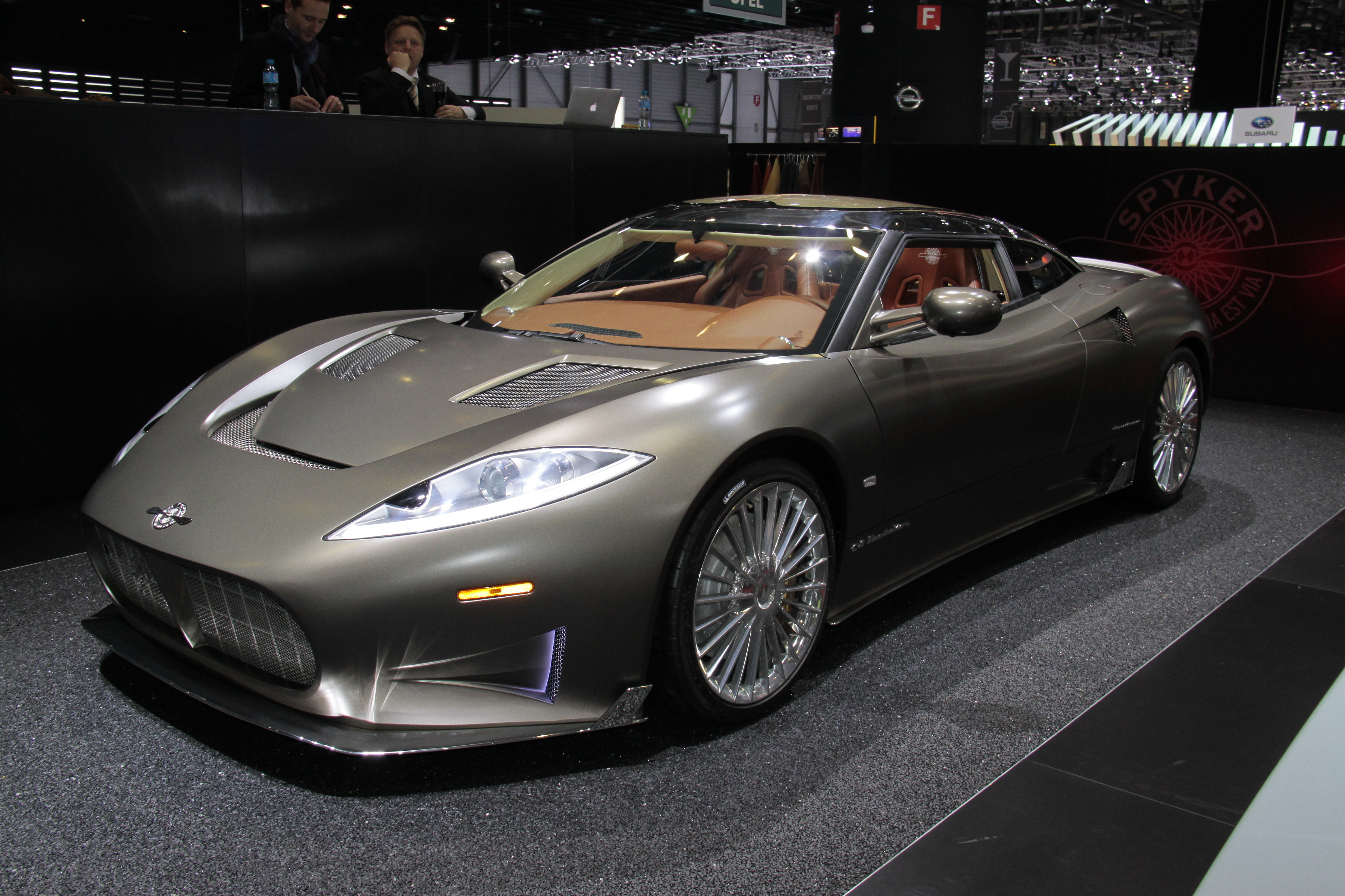 Spyker C8 Preliator at the 2016 Geneva Motor Show